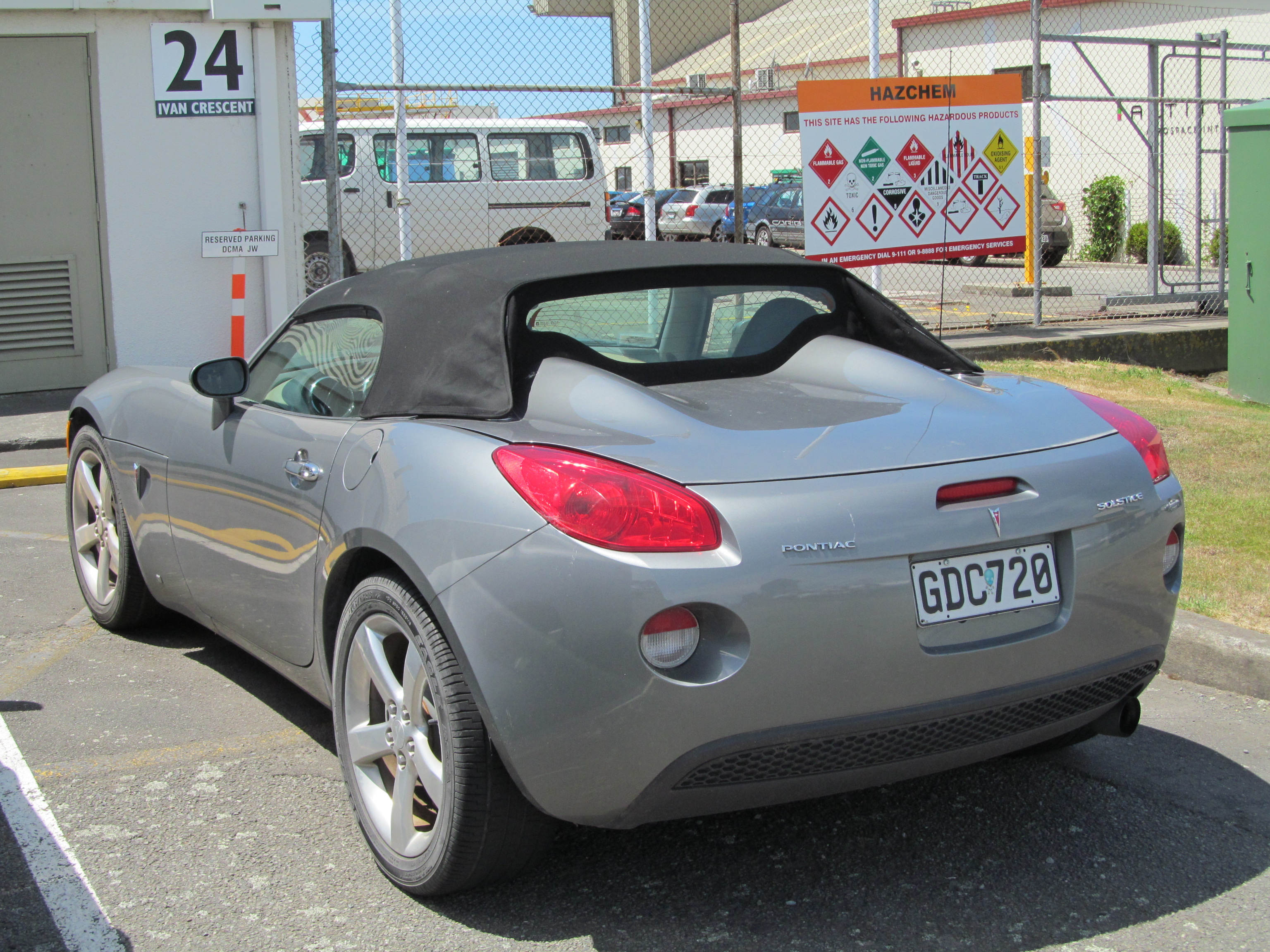 These are actually very short cars, but they are very wide and low. I wonder where in the States it came from. USA import as per CarJam.